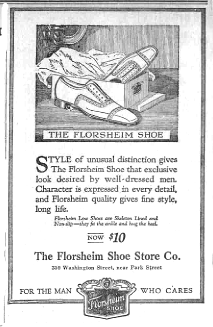 Newspaper ad for Florsheim shoe stores in Portland, Oregon.